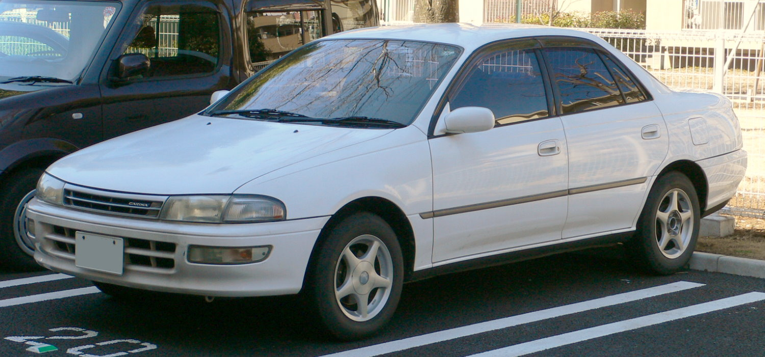 6th generation Toyota Carina (1992/8 - 1994/8)